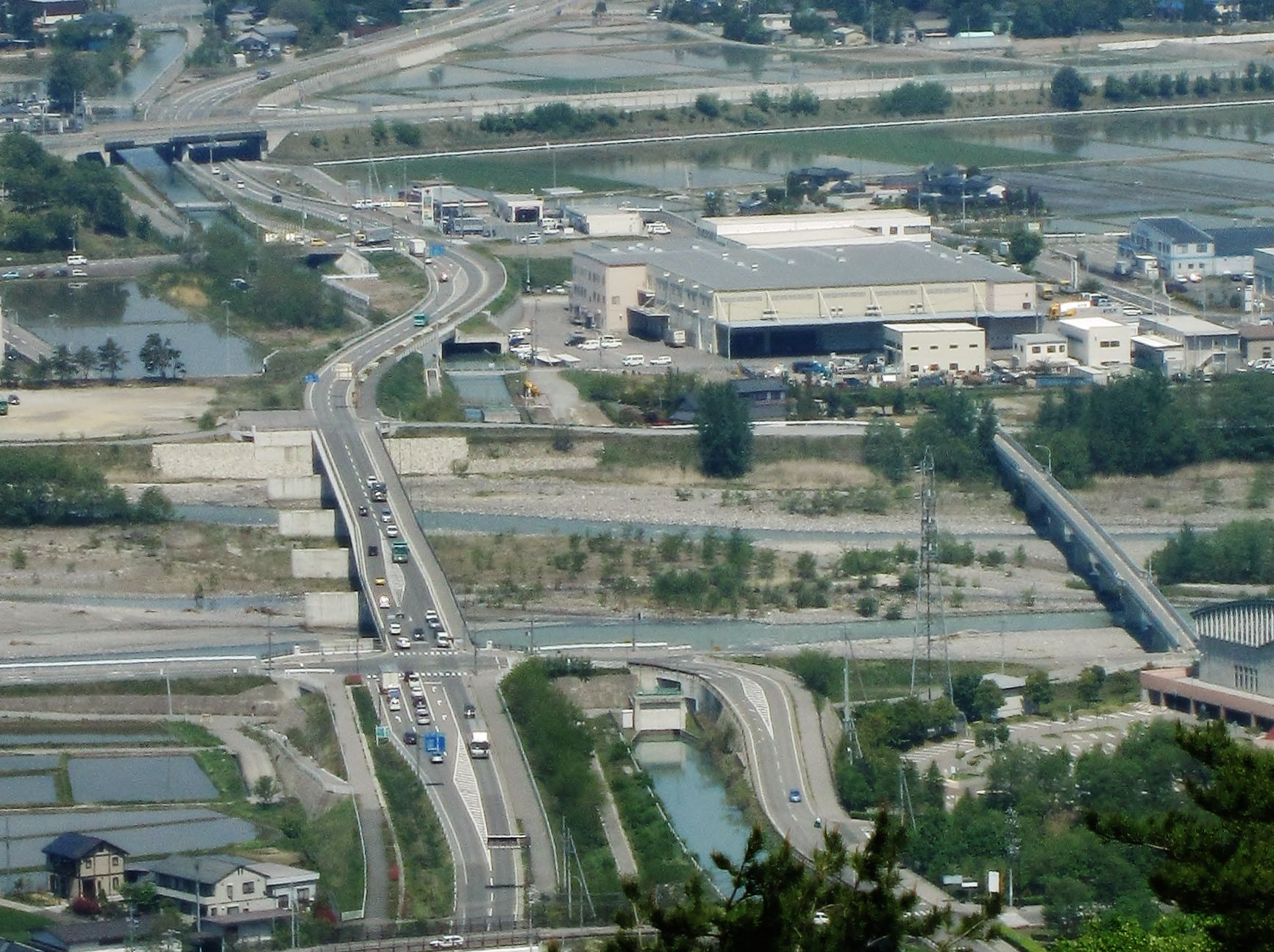 Alps Ohashi Bridge.